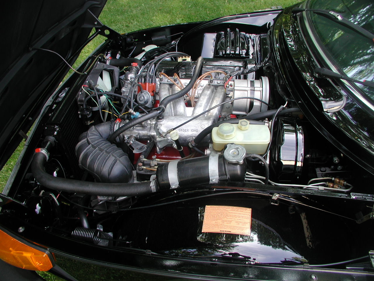 US spec 1975EMS engine: Bosch K-Jetronic fuel injection